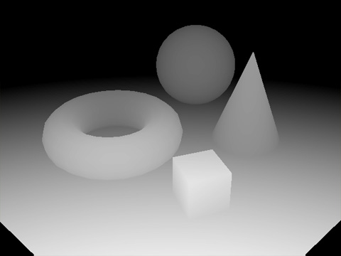 Deferred rendering breakdown : Depth pass